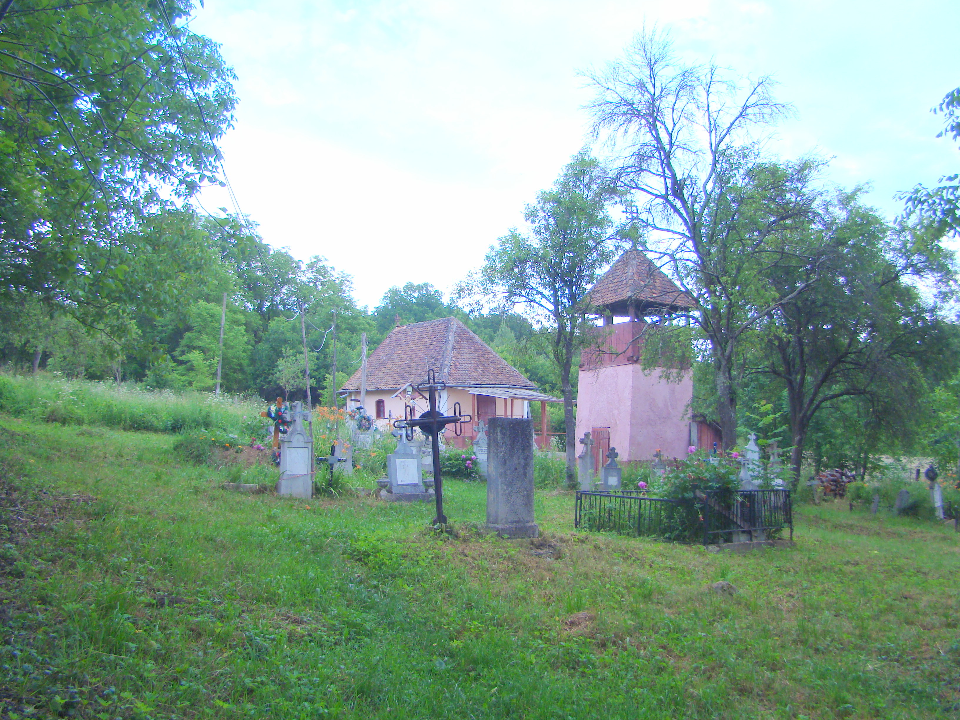 Wooden church in Cobor, Brașov county, Romania